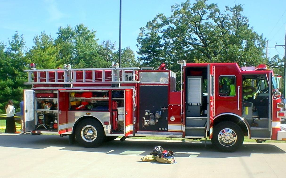 2008 Sutphen custom engine, photographed October 11, 2009 by Adolphus79.